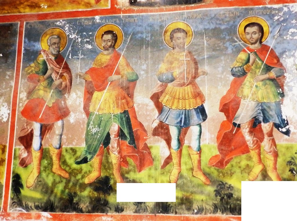 Fresco_in_Saint_Mary_Church_in_Fariš